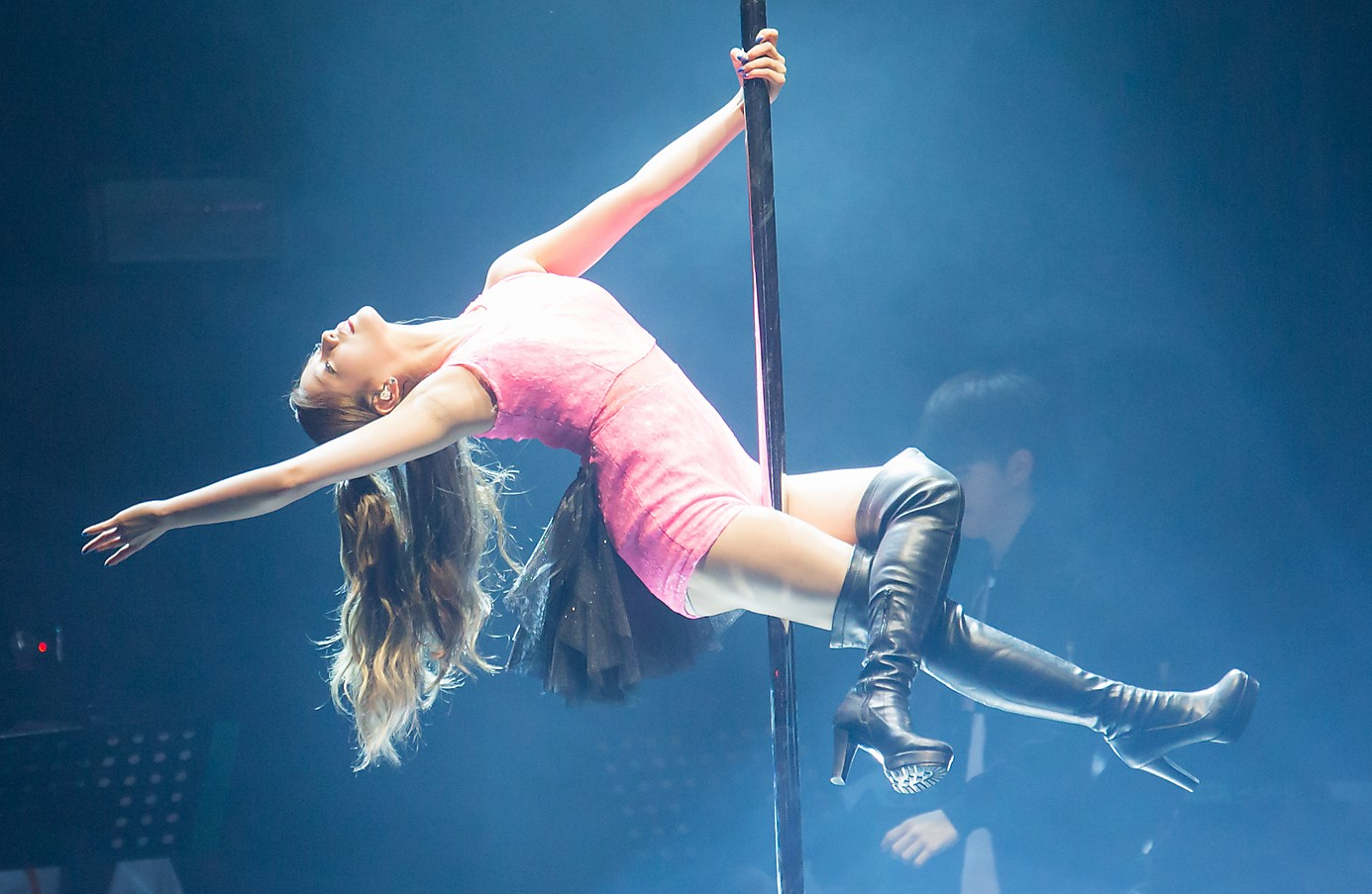 Yoon Bo-mi at Pink Paradise concert, 30 May 2015